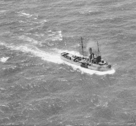 Aerial photograph of Royal Australian Navy tug HMAS Heros near Horn Island in 1943